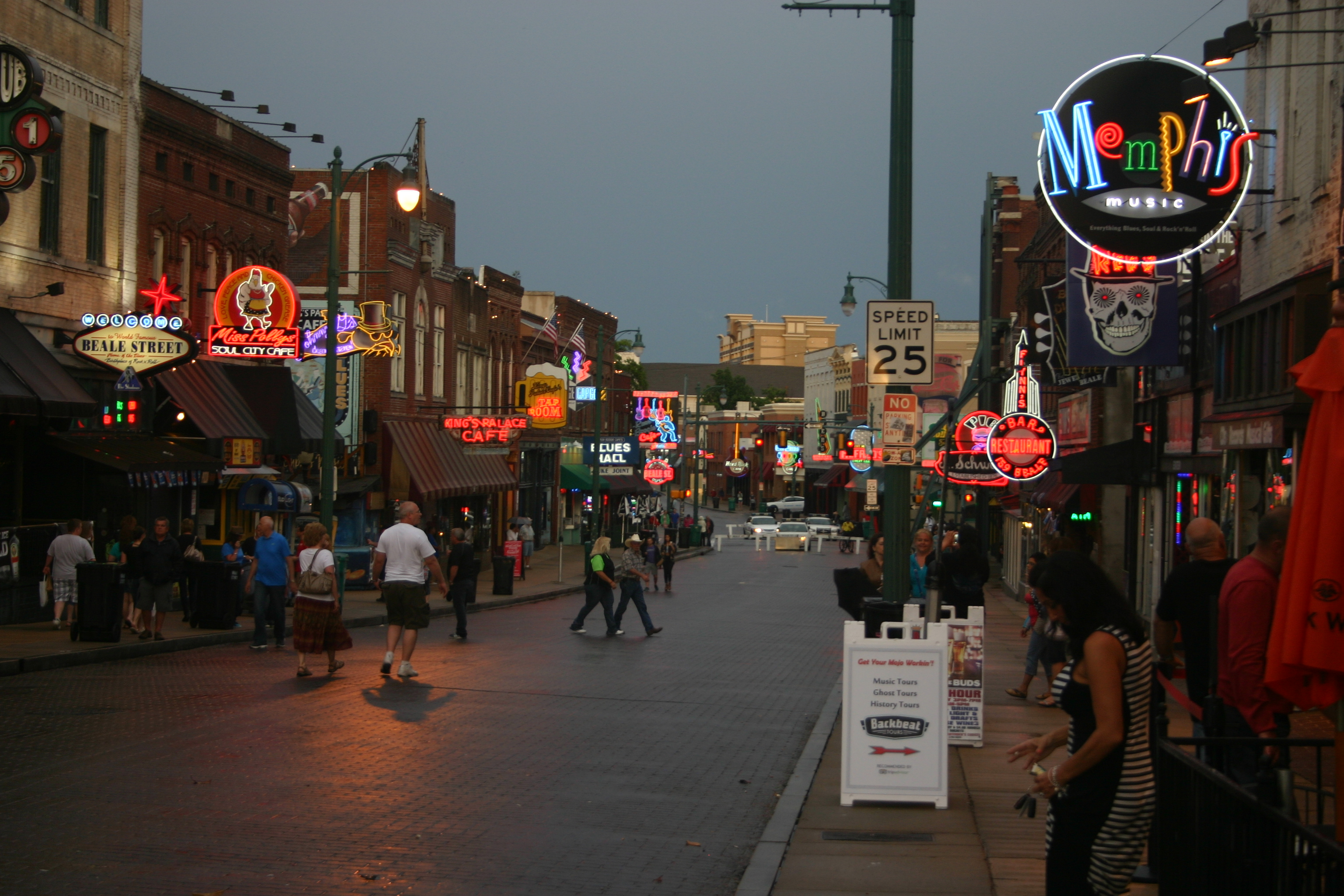 Blues clubs and restaurants line historic Beale Street in downtown Memphis, Tennessee, 2014.